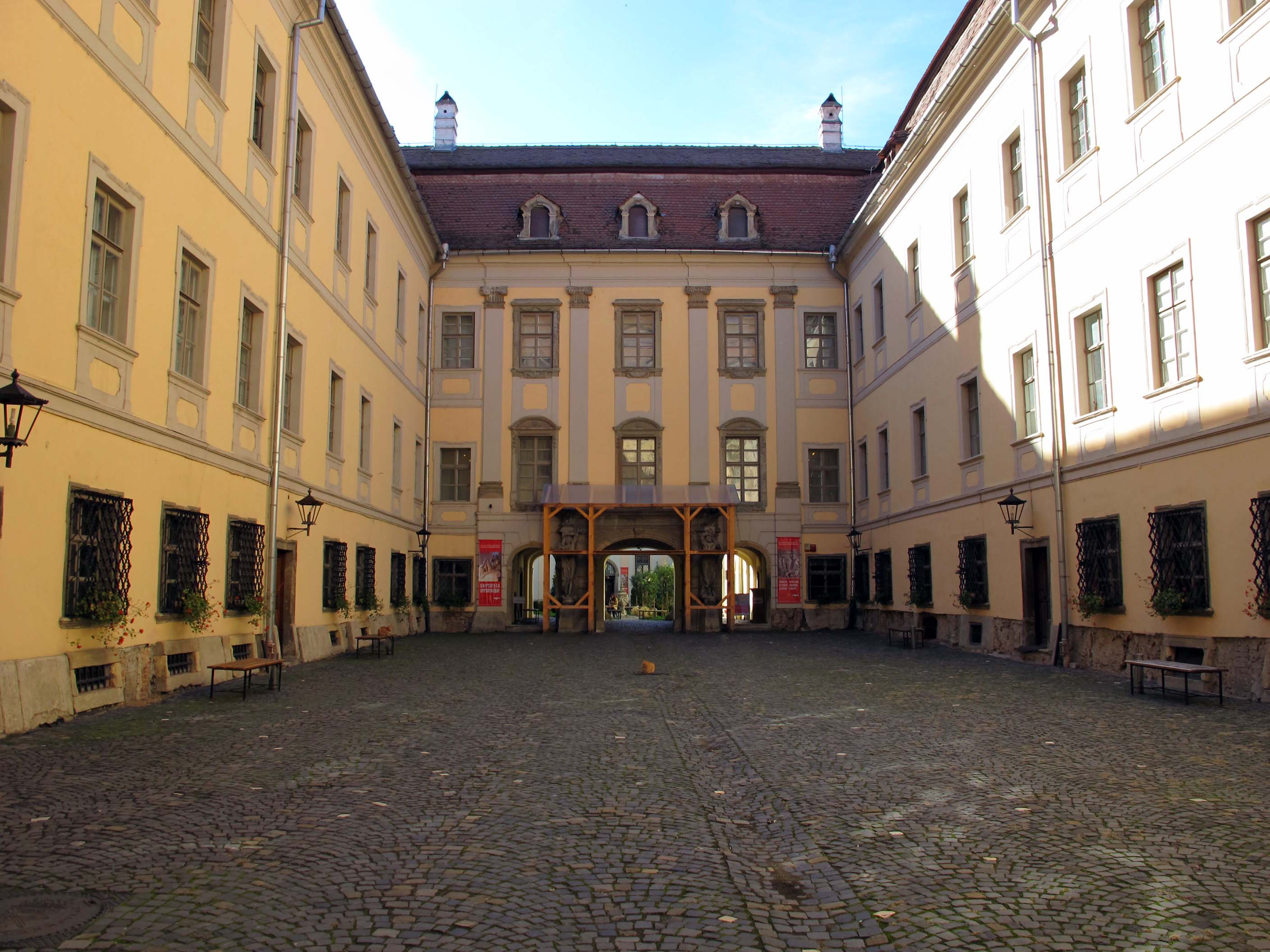 Museo bruckenthal, ext, cortile